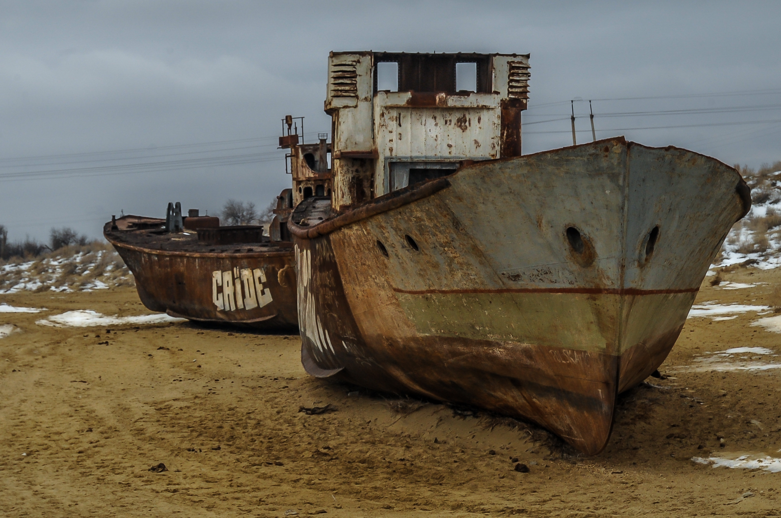 The Aral Sea is located in Central Asia between Kazakhstan and Uzbekistan. It is actually a lake, but because the water inside is salty like the ocean, it was called a sea. It used to be the 4th largest lake in the world, but has been shrinking for over 40 years because farmers were taking a lot of water from the lake to bring to their cotton fields. Now, there is almost nothing left of the lake. As the water has gone down, the amount of salt in the water has increased making it too salty for many plants, fish, and animals to live there anymore. Many fish, plants, and animals have died because the water is too salty. To make matters worse, the government, farmers, and other people have been dumping garbage and harmful chemicals in the Aral Sea and the area around it. This means that people living close to the Aral Sea are much more likely to get sick. People living there have 9 times the rate of cancer as other people in their countries.